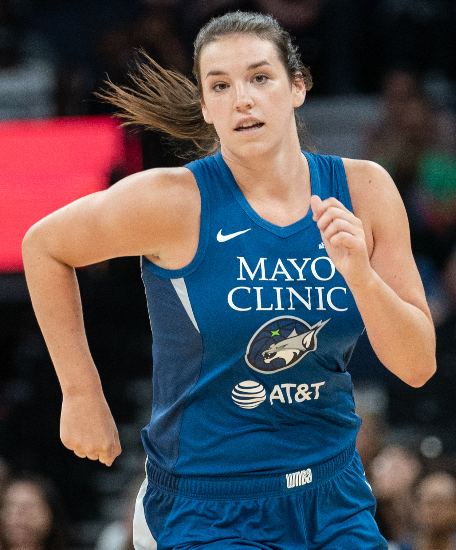 Minnesota Lynx player Bridget Carleton in a game against the Las Vegas Aces